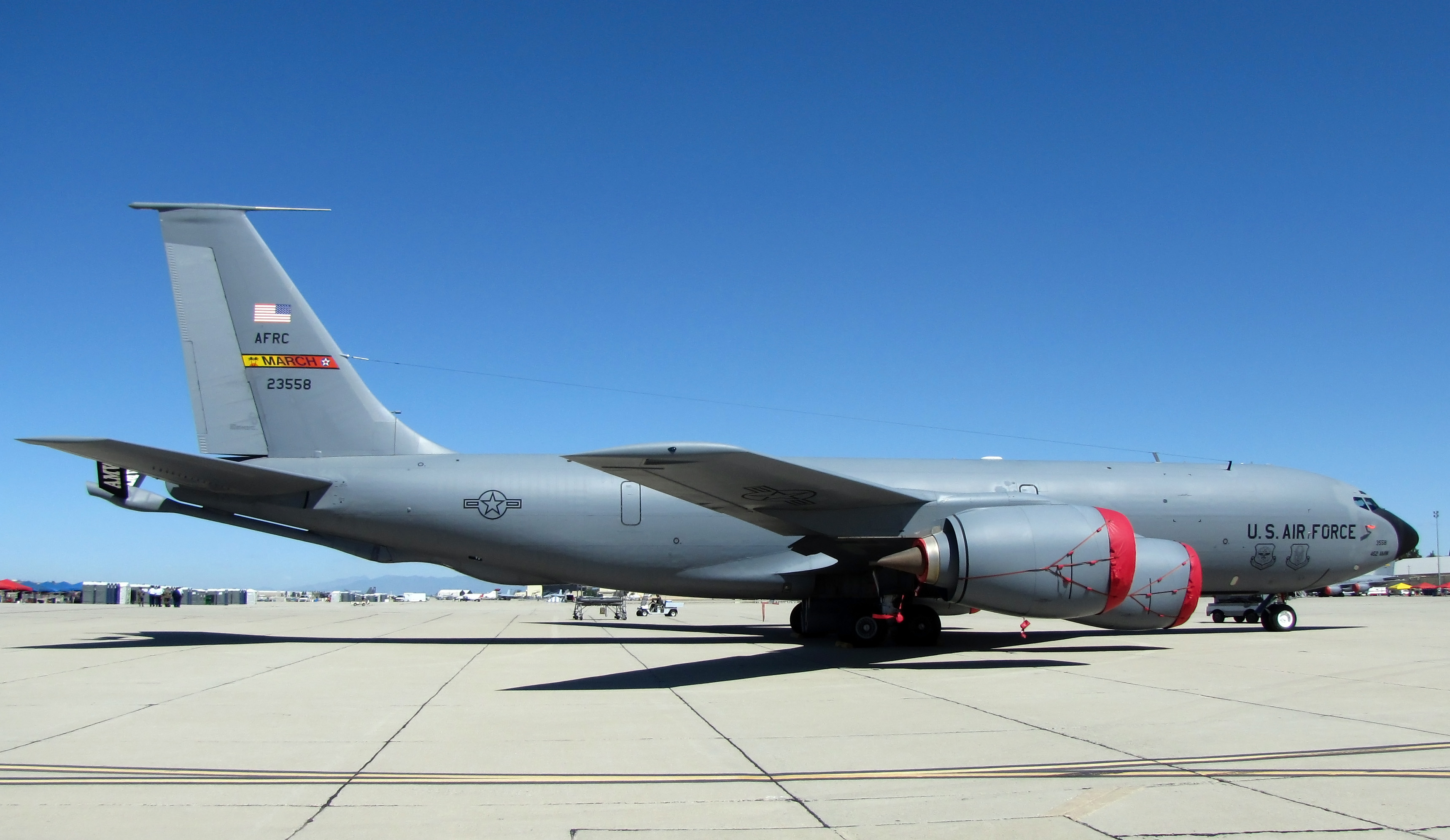 A KC-135 a March Air Reserve Base in 2010